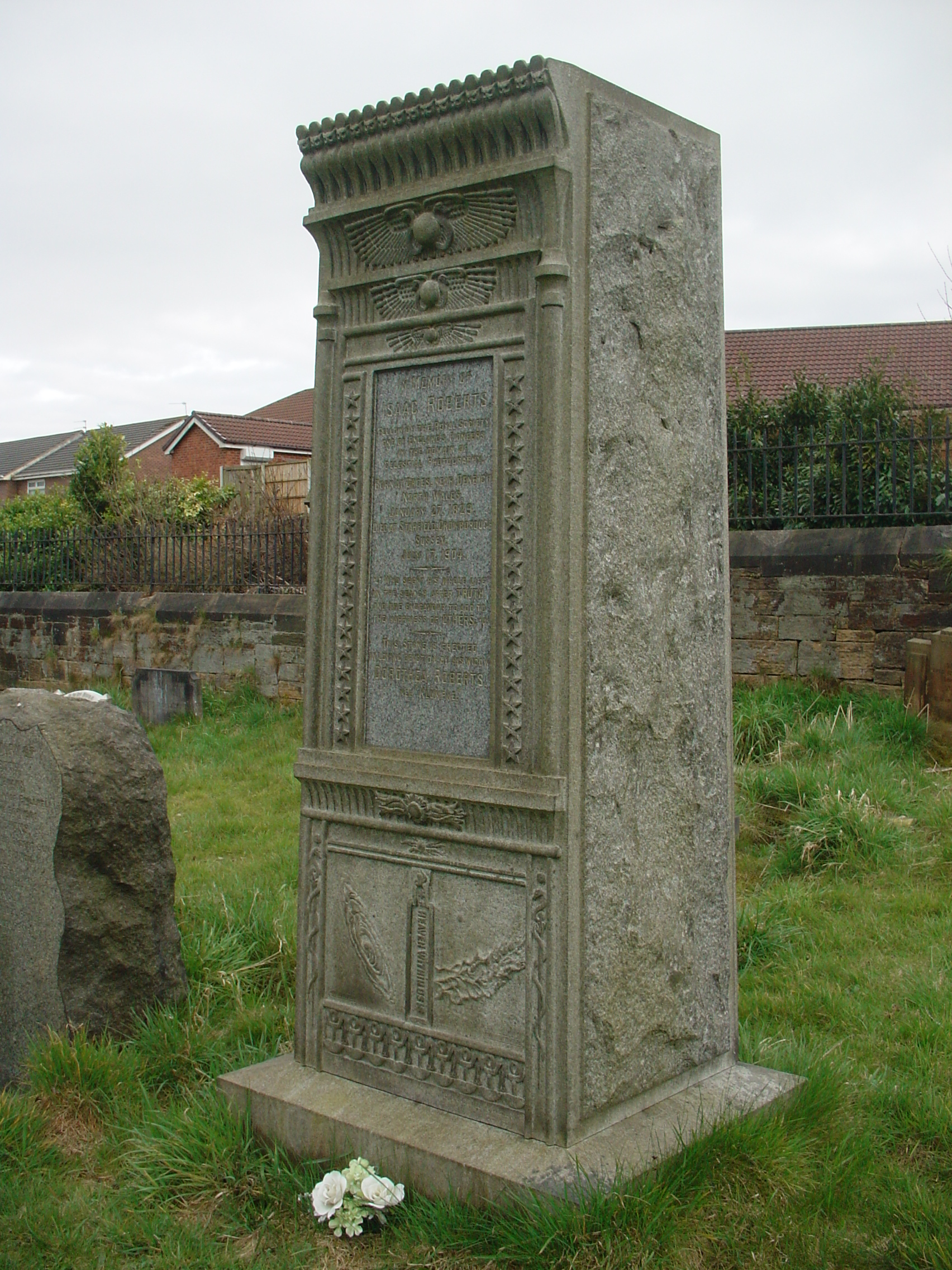 Photo taken at the tomb of Welsh engineer and amateur astronomer Isaac Roberts in Flaybrick Hill Cemetery, Birkenhead, Merseyside, England.